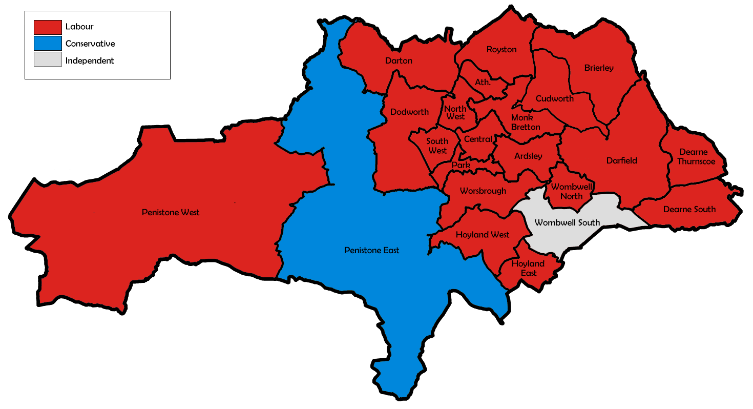 Ward map of Barnsley council with political colouring for the 1984 election.